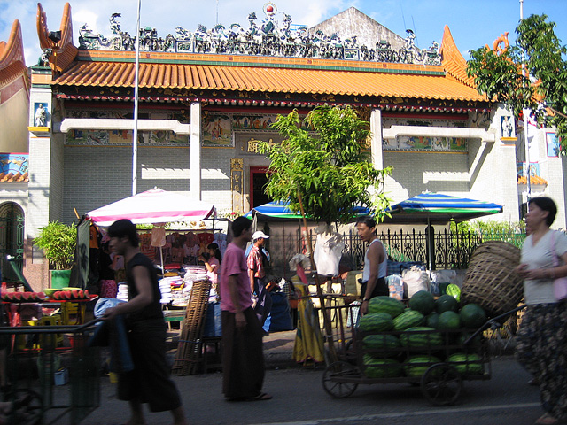 Cantonese Guanyin Gumiao Temple in Latha Township, Yangon